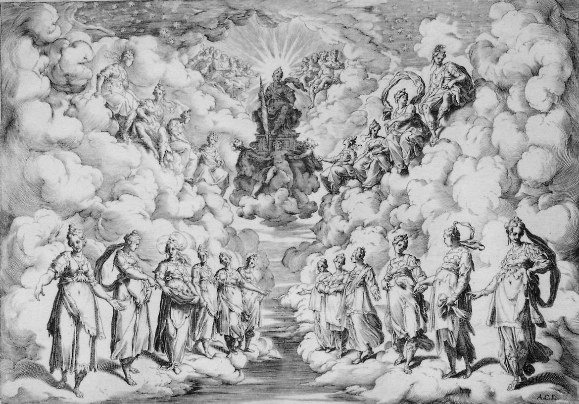 First intermedio of the play La Pellegrina: Harmony of the Spheres, from the Medici wedding of 1589. Designed by Bernardo Buontalenti.